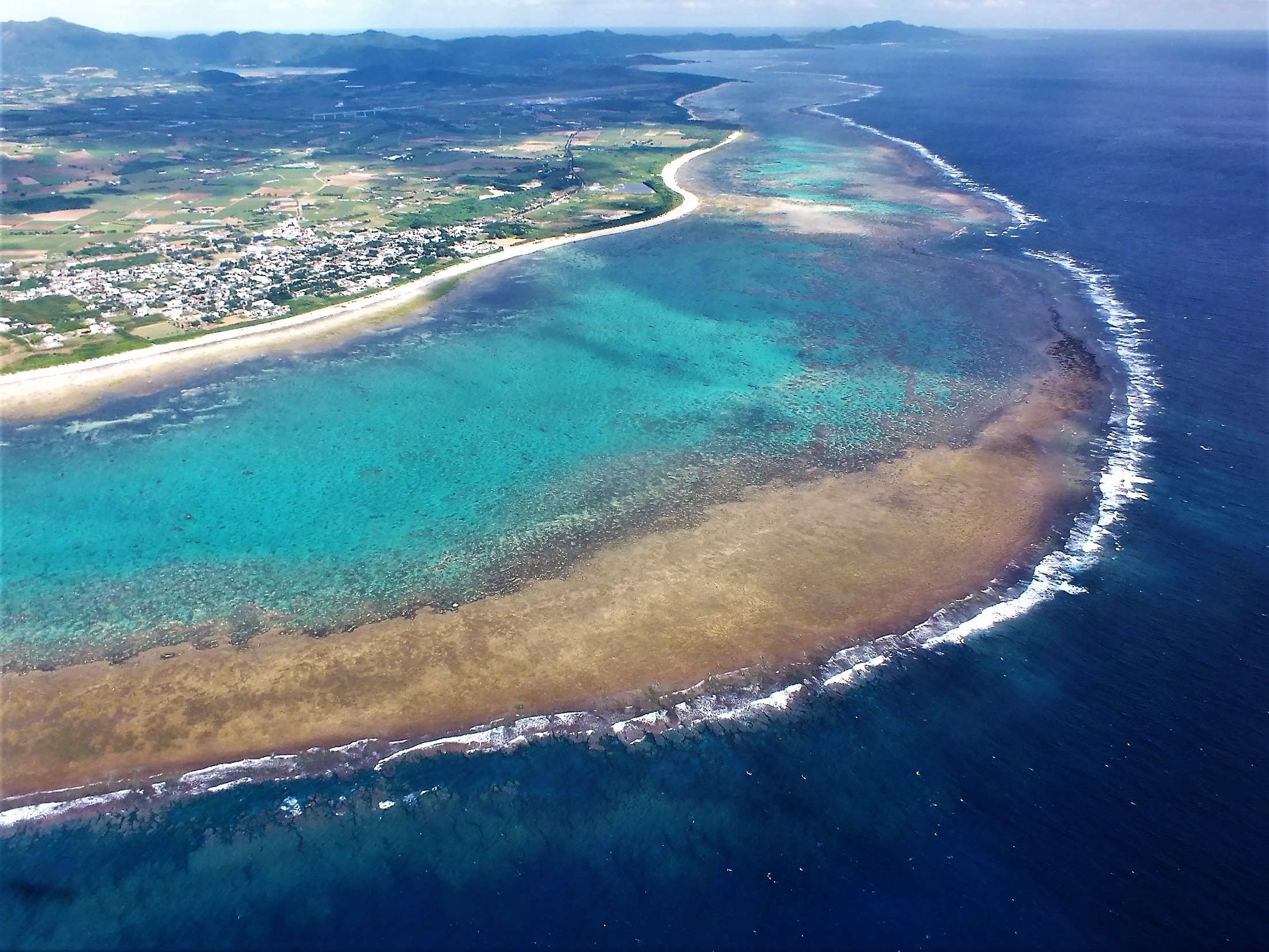 Shirahoreef and New Ishigaki Airport by Peach Airbus A320-214